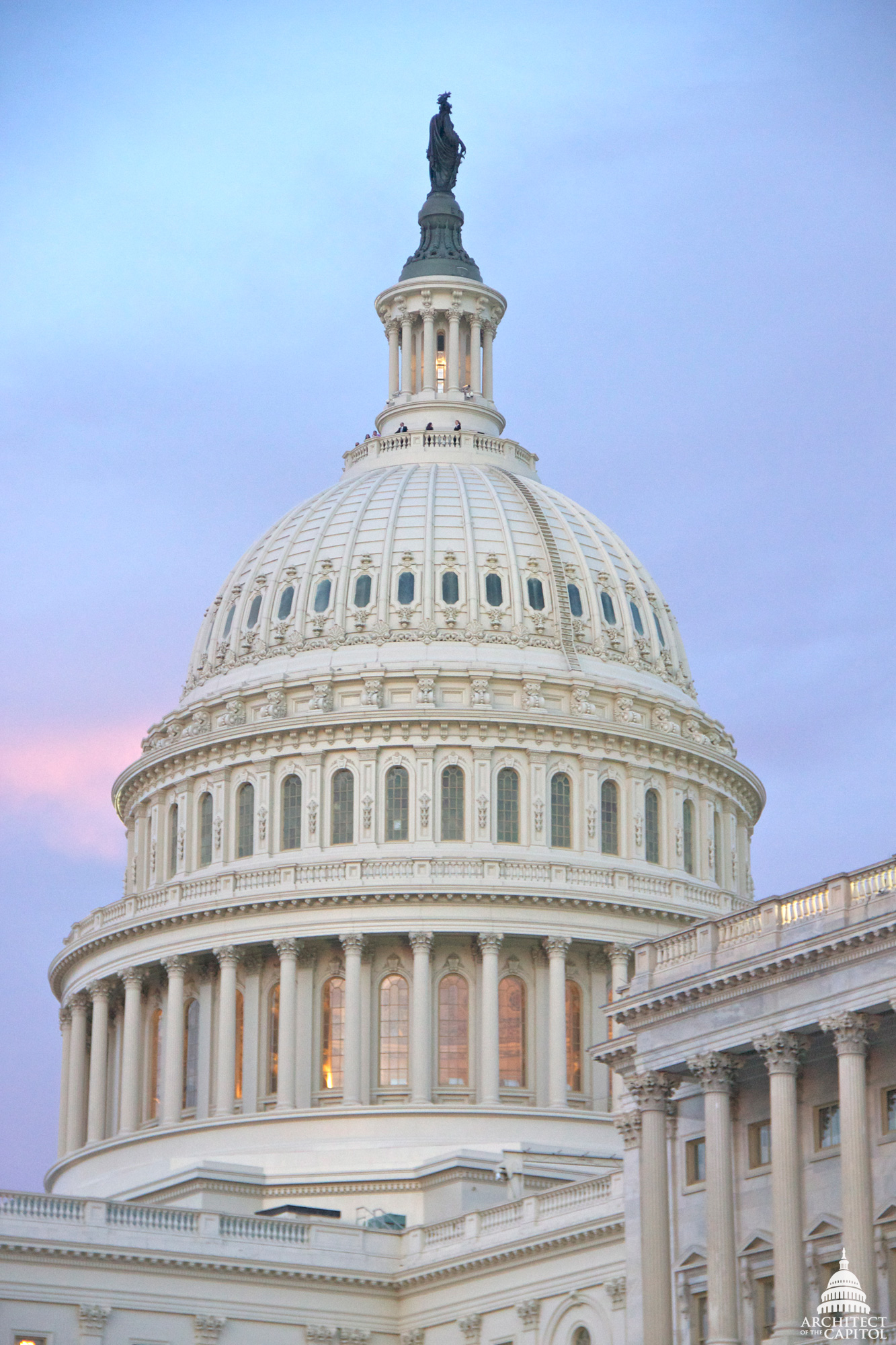 This official Architect of the Capitol photograph is being made available for educational, scholarly, news or personal purposes (not advertising or any other commercial use). When any of these images is used the photographic credit line should read “Architect of the Capitol.” These images may not be used in any way that would imply endorsement by the Architect of the Capitol or the United States Congress of a product, service or point of view. For more information visit